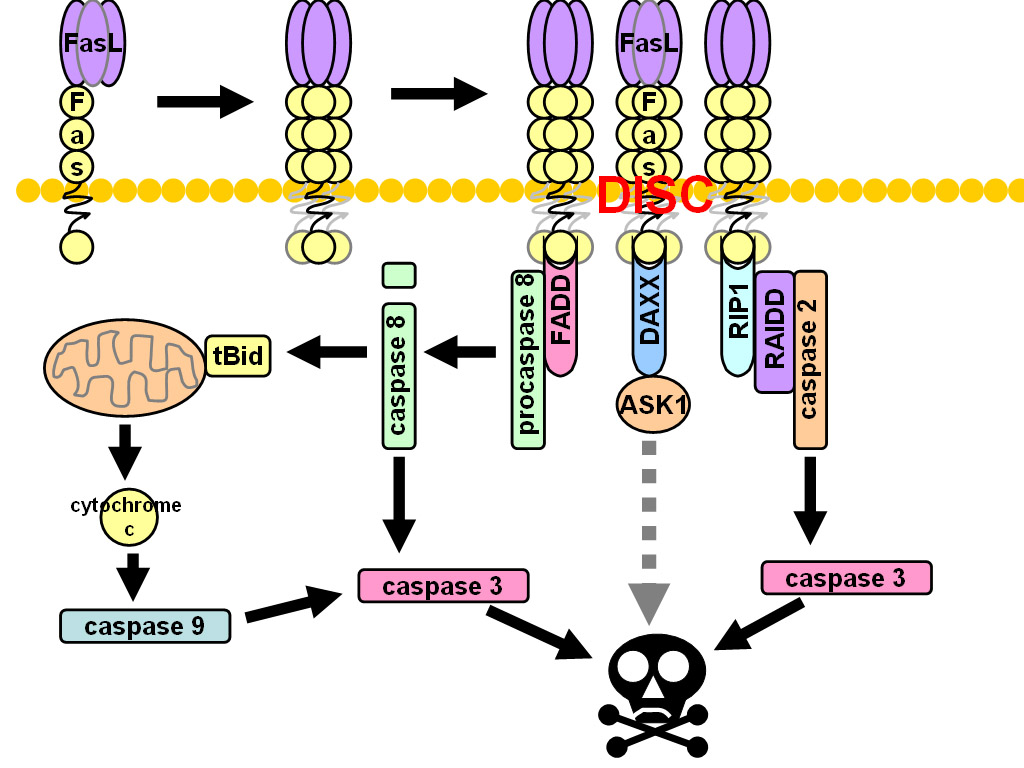 The dashed grey line represent multiple steps in JNK signaling.